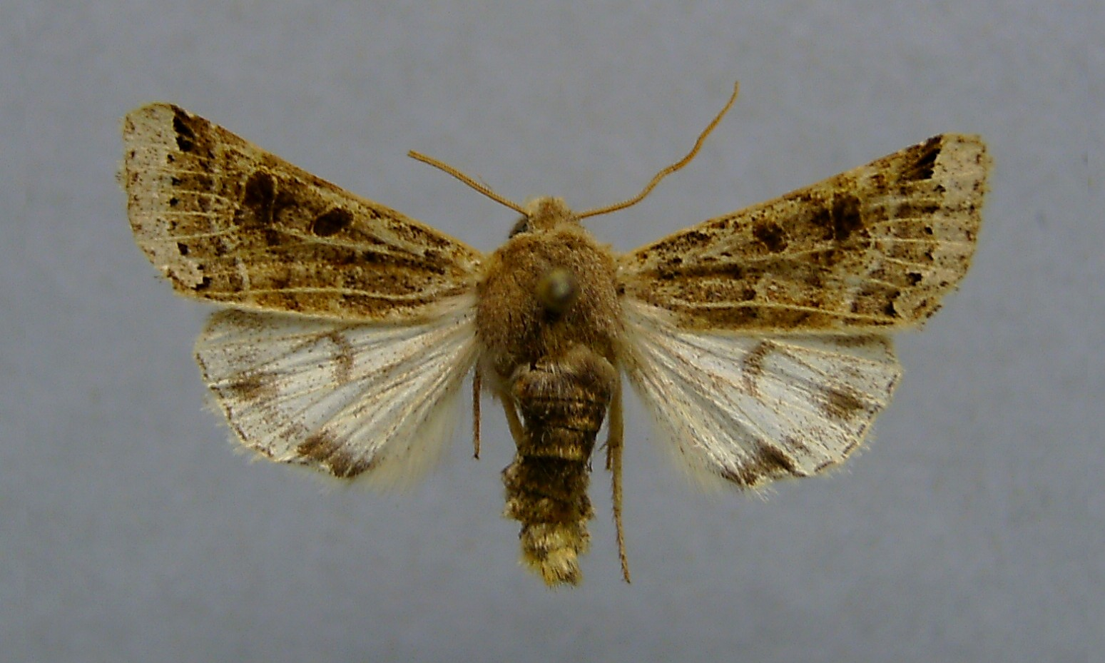 Lunar Underwing (Omphaloscelis lunosa), Leverkusen, Germany